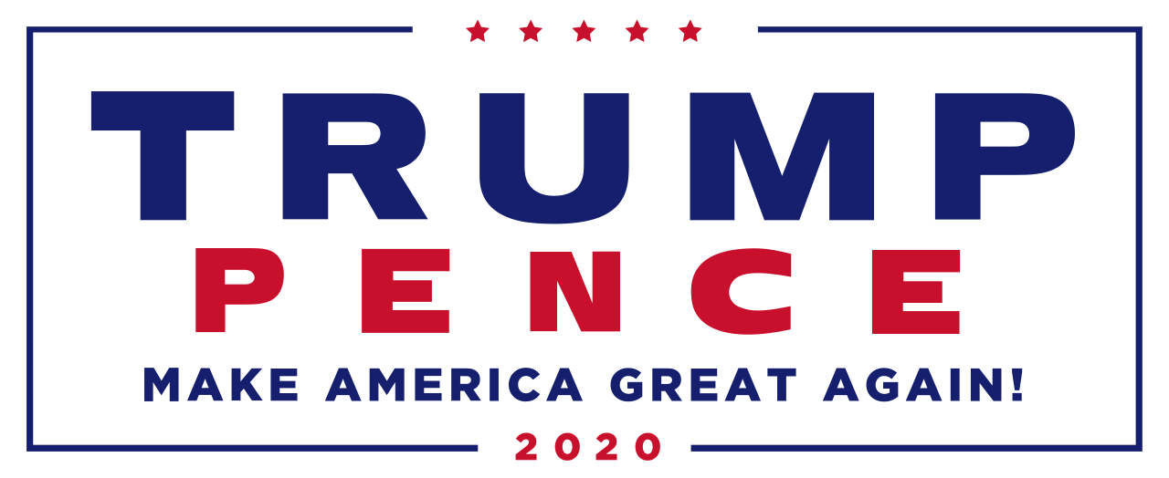 Trump Pence 2020 logo with "Keep America Great!" slogan